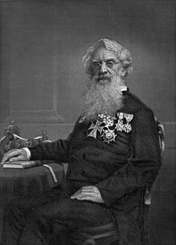 Samuel Morse19th century engraved portrait, probably based on photograph.